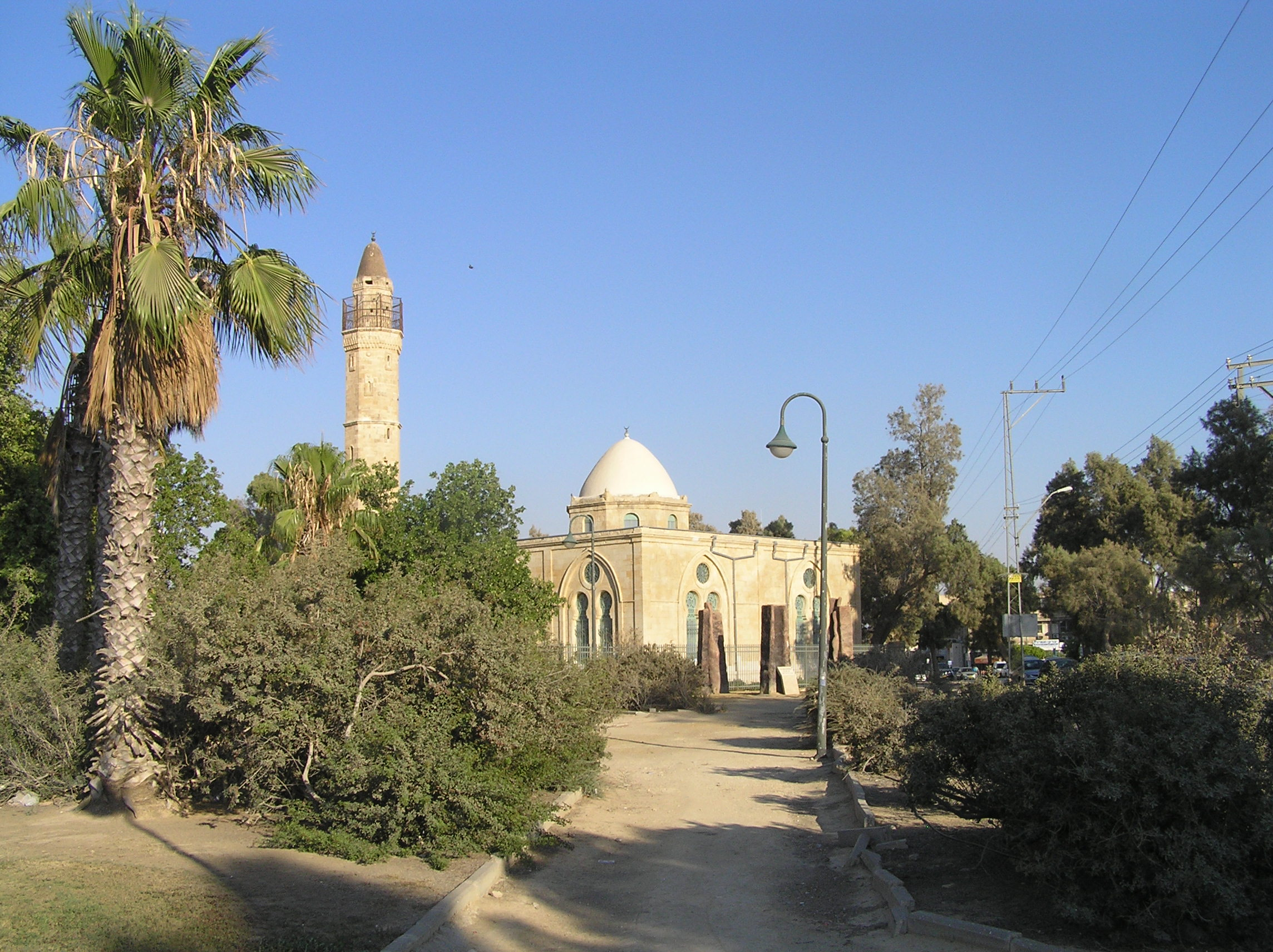 Beersheba Mosque